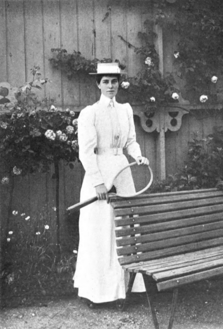 Muriel Robb (1878-1907), English tennis player, Wimbledon singles champion in 1902